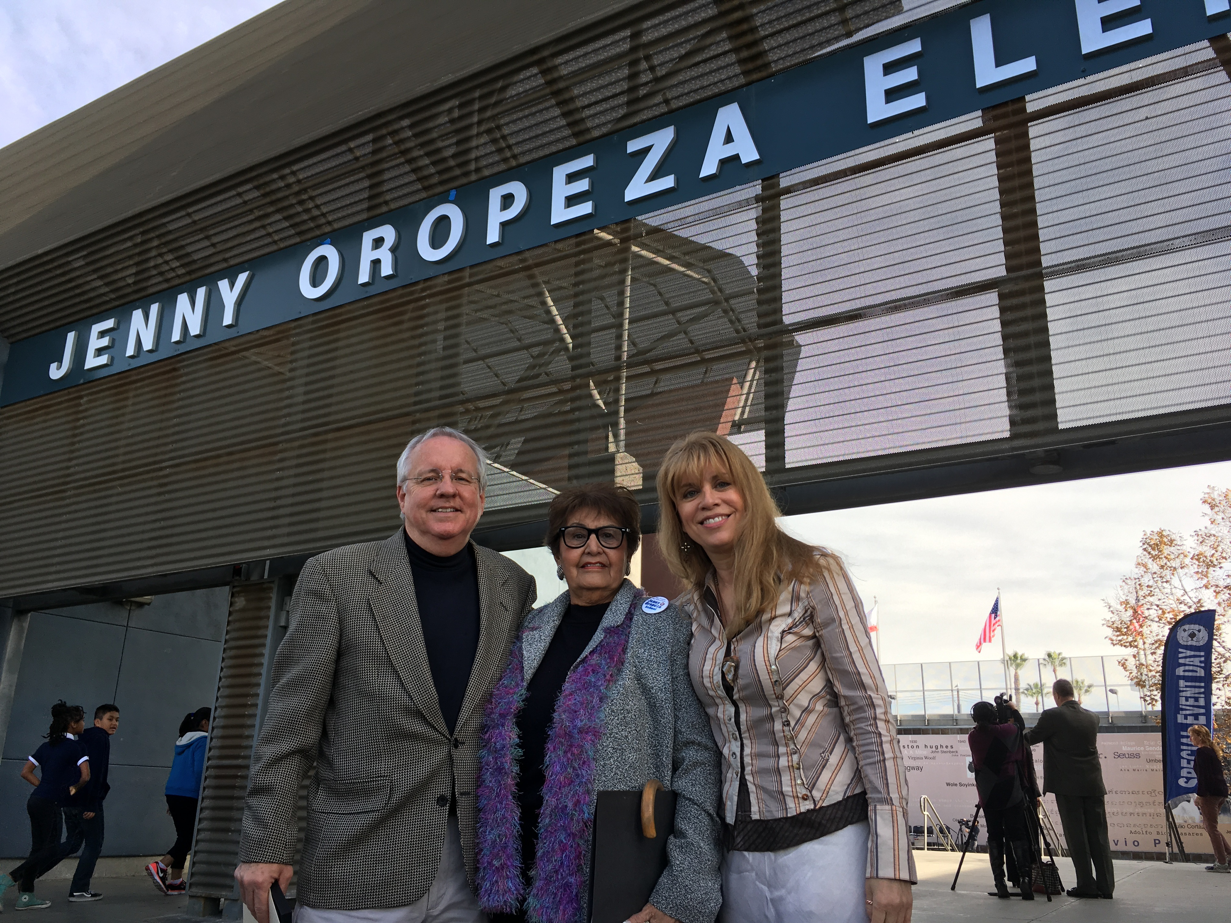 Jenny Oropeza's family & a friend at the Naming & Dedication Ceremony for the Jenny Oropeza Elementary School in Long Beach, November 28, 2016